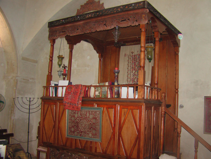 Chania_Synagogue_a. Credit: Courtesy of Arie Darzi to memorialize the Jewish community in Greece.